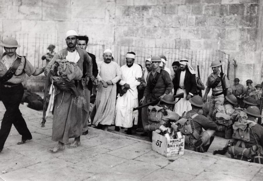 In 1938 the Arabs revolt against the English authority, soldiers of the English Coldstream Guards are "cleansing" Jerusalem off revolting Arabs. Hebt u meer informatie over deze foto, laat het ons weten. Laat een reactie achter (als u ingelogd bent bij Flickr) of stuur een mailtje naar: Please help us gain more knowledge on the content of our collection by simply adding a comment with information. If you do not wish to log in, you can write an e-mail to: Meer foto’s van Spaarnestad Photo zijn te vinden op onze beeldbank